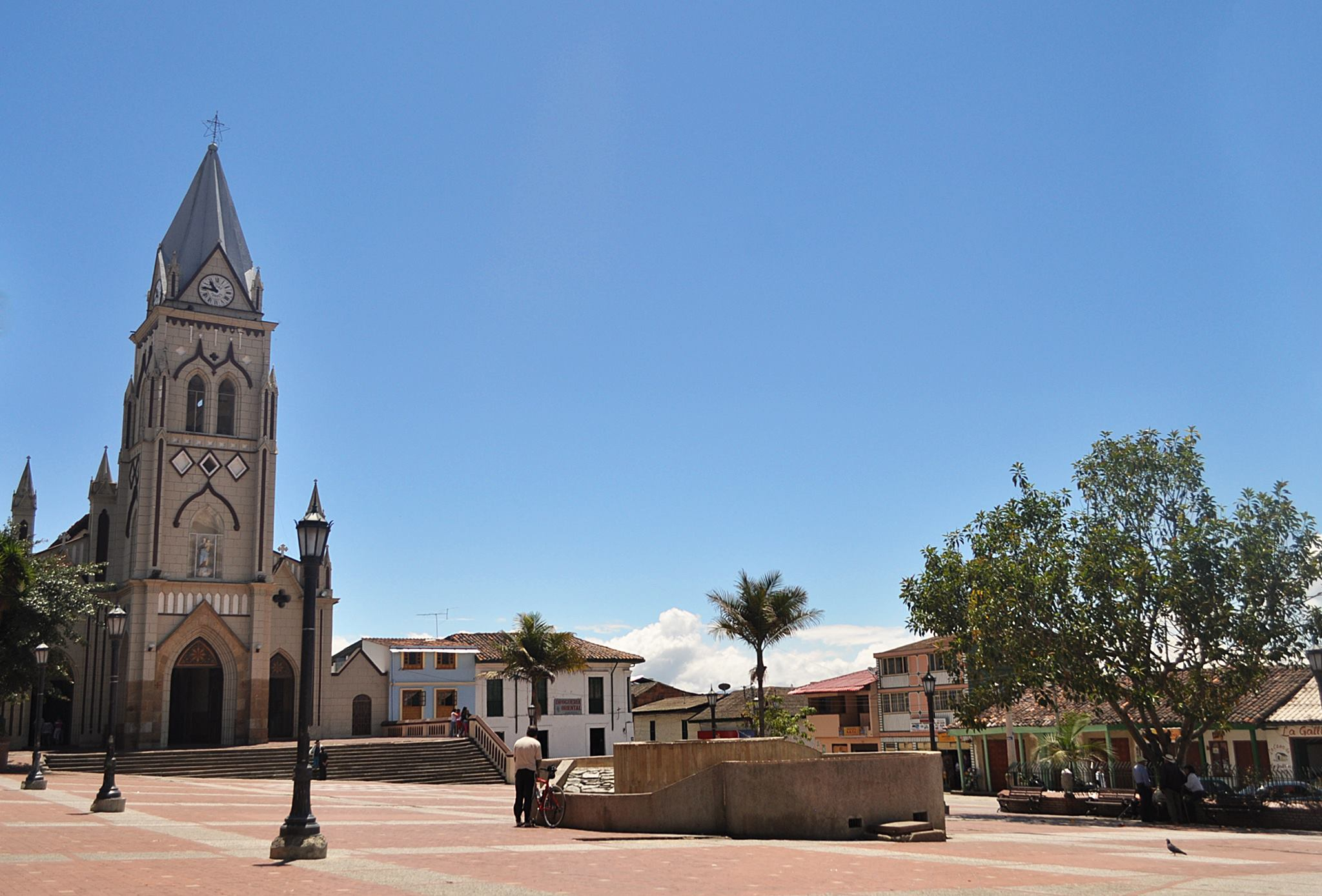 Parque Chipaque